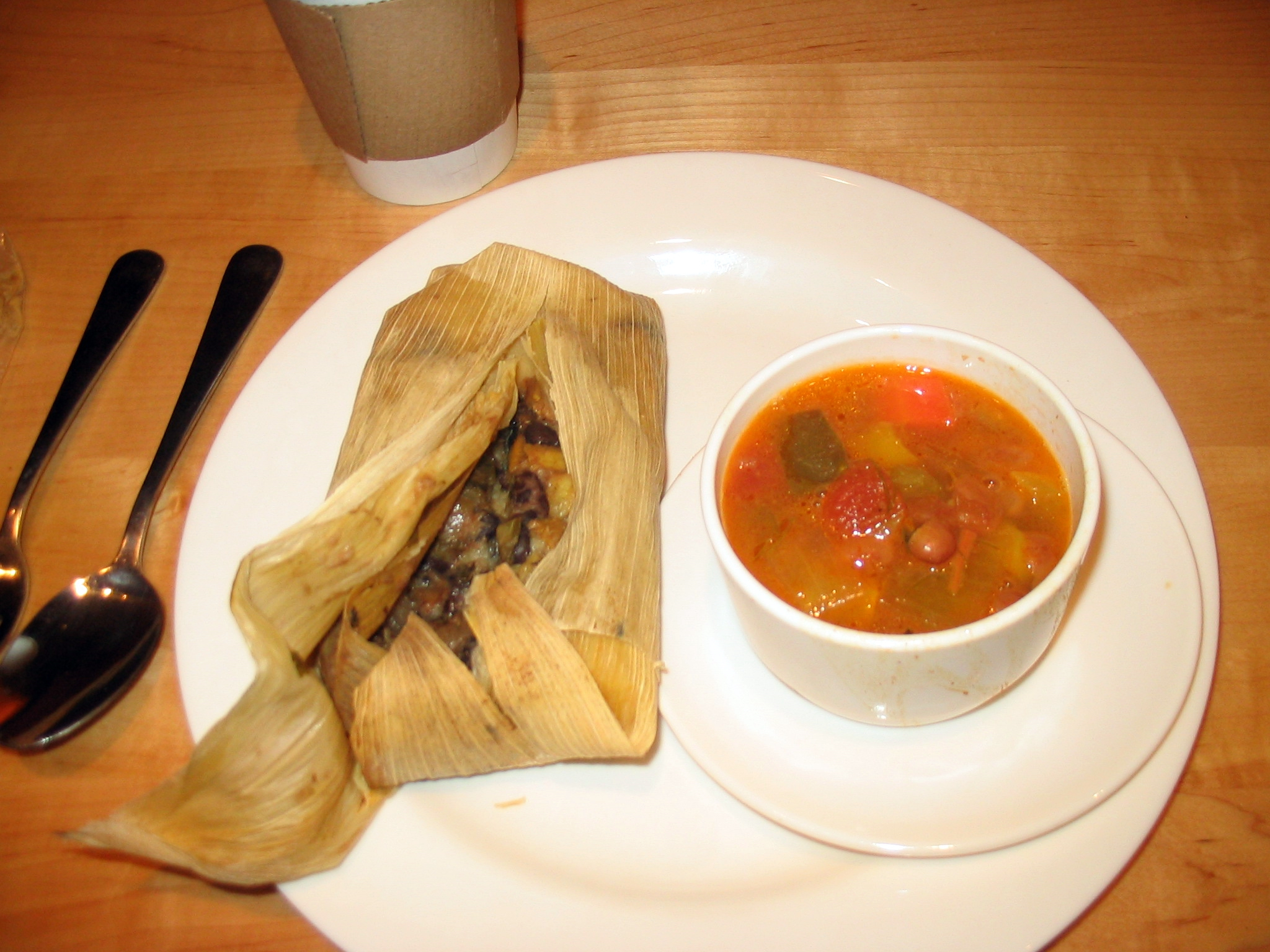 Lunch from the cafeteria at the National Museum of the American Indian. Tamale and squash soup.